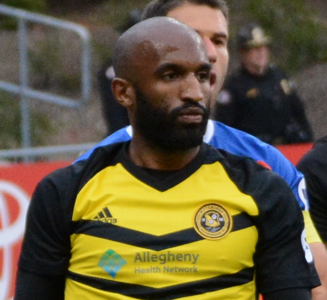 Taken during a USL regular season match between FC Cincinnati and Pittsburgh Riverhounds at Nippert Stadium in Cincinnati, USA on April 21, 2018.